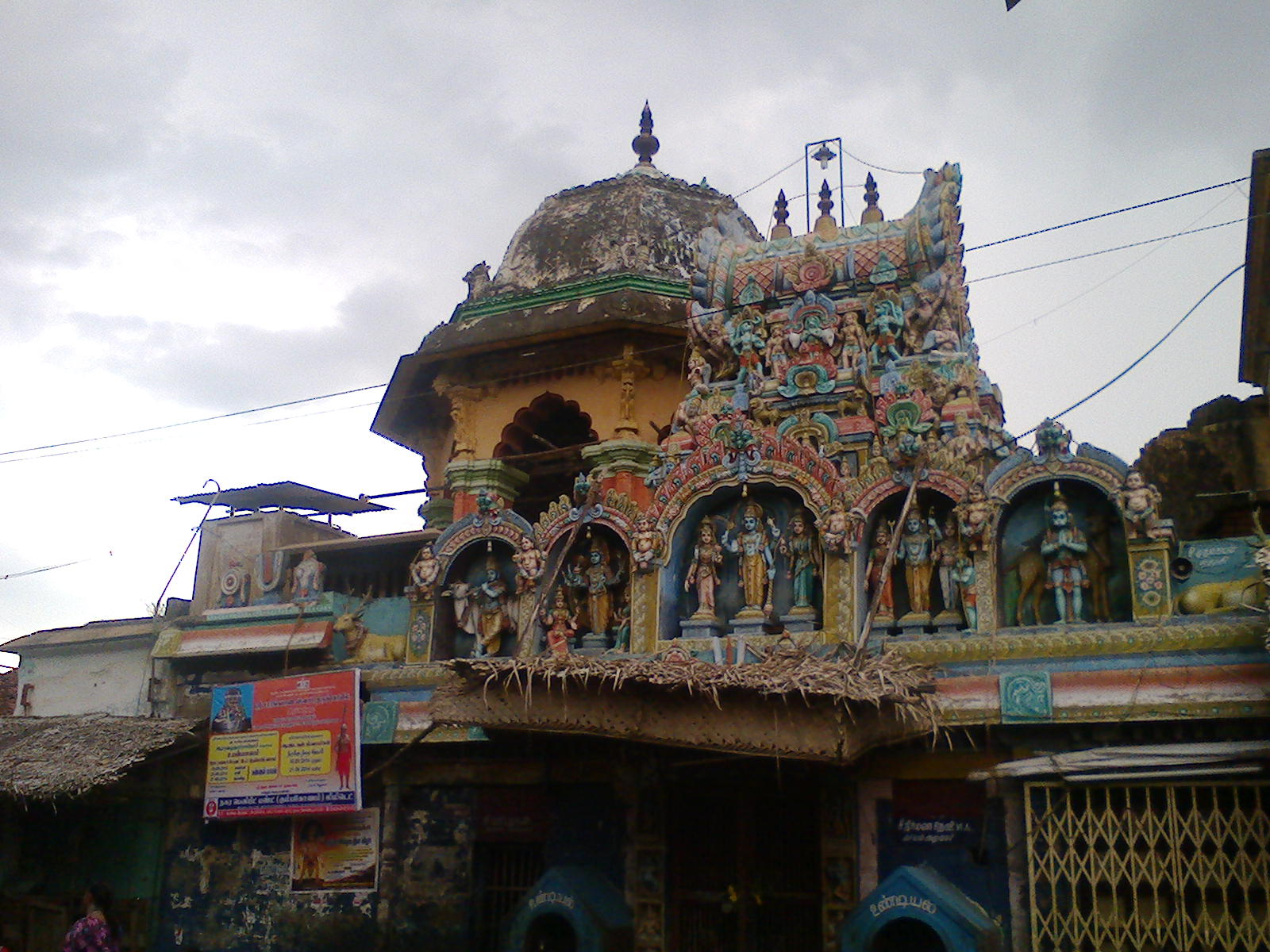 KumbakonamBigstreetanjaneyartemple கும்பகோணம் பெரியக்கடைத்தெரு அனுமார் கோயில்